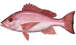 Red snapper, Lutjanus campechanus